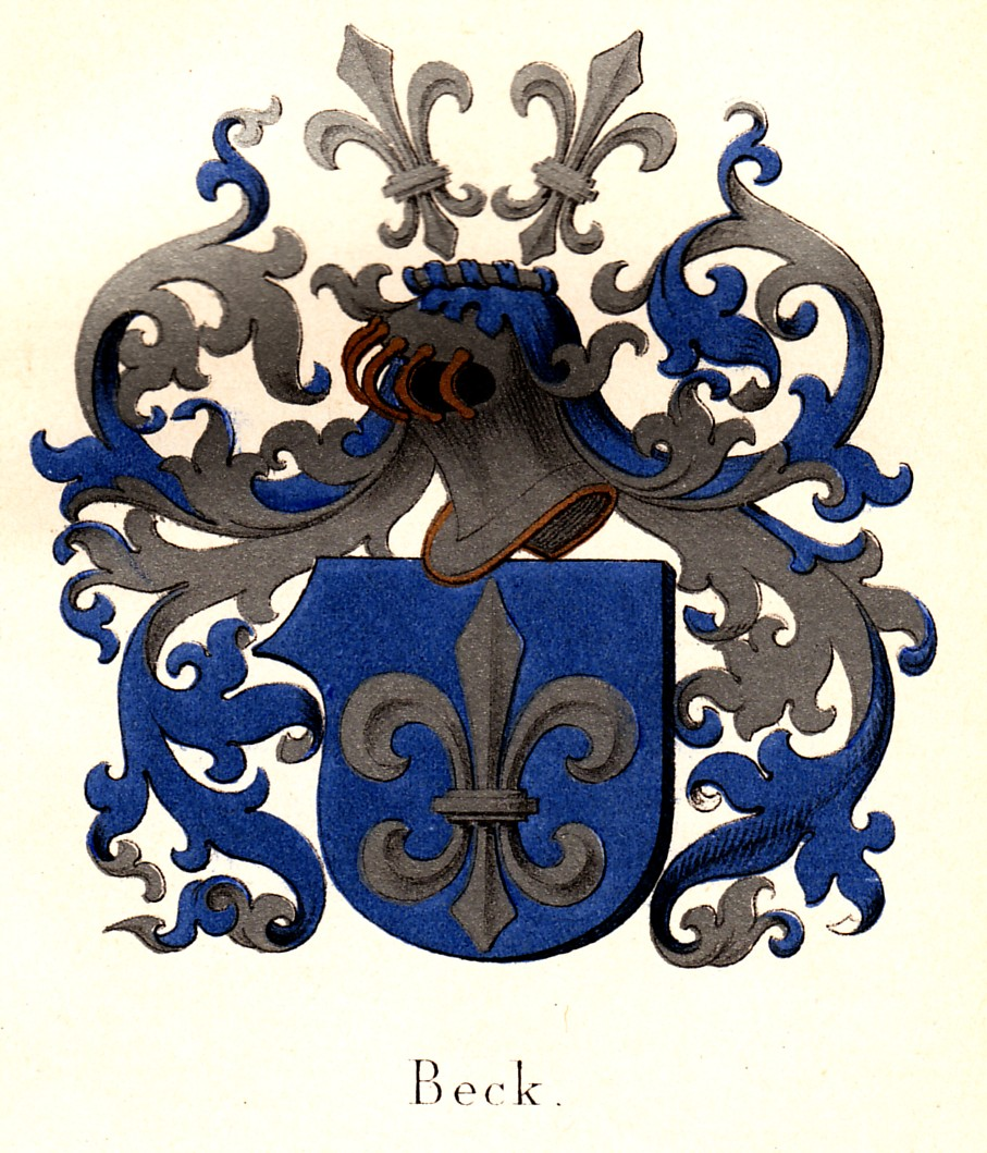 Coat of arms of the Beck family